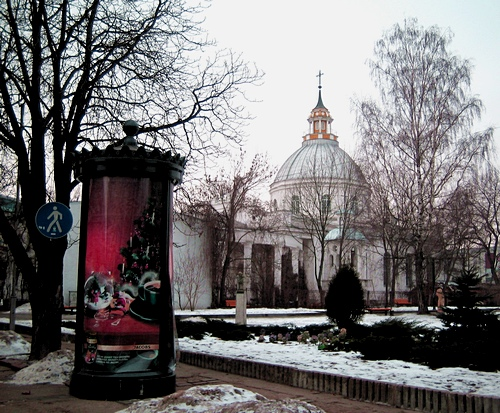 Sv. Pētera Romas katoļu baznīca (Saint Peter's Roman Catholic Church), Daugavpils. (1848; rebuilt 1924) Digital photograph by Pēteris Cedriņš.